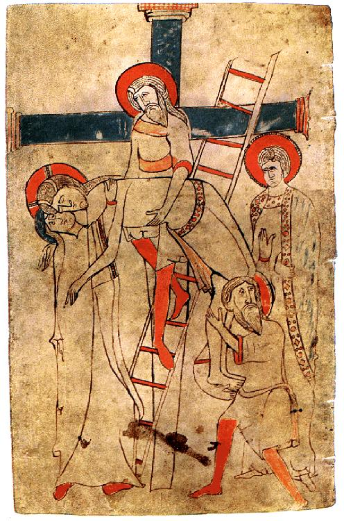 Photo of 12th century image. This page of a Hungarian manuscript from 1192-1195, discovered by György Pray